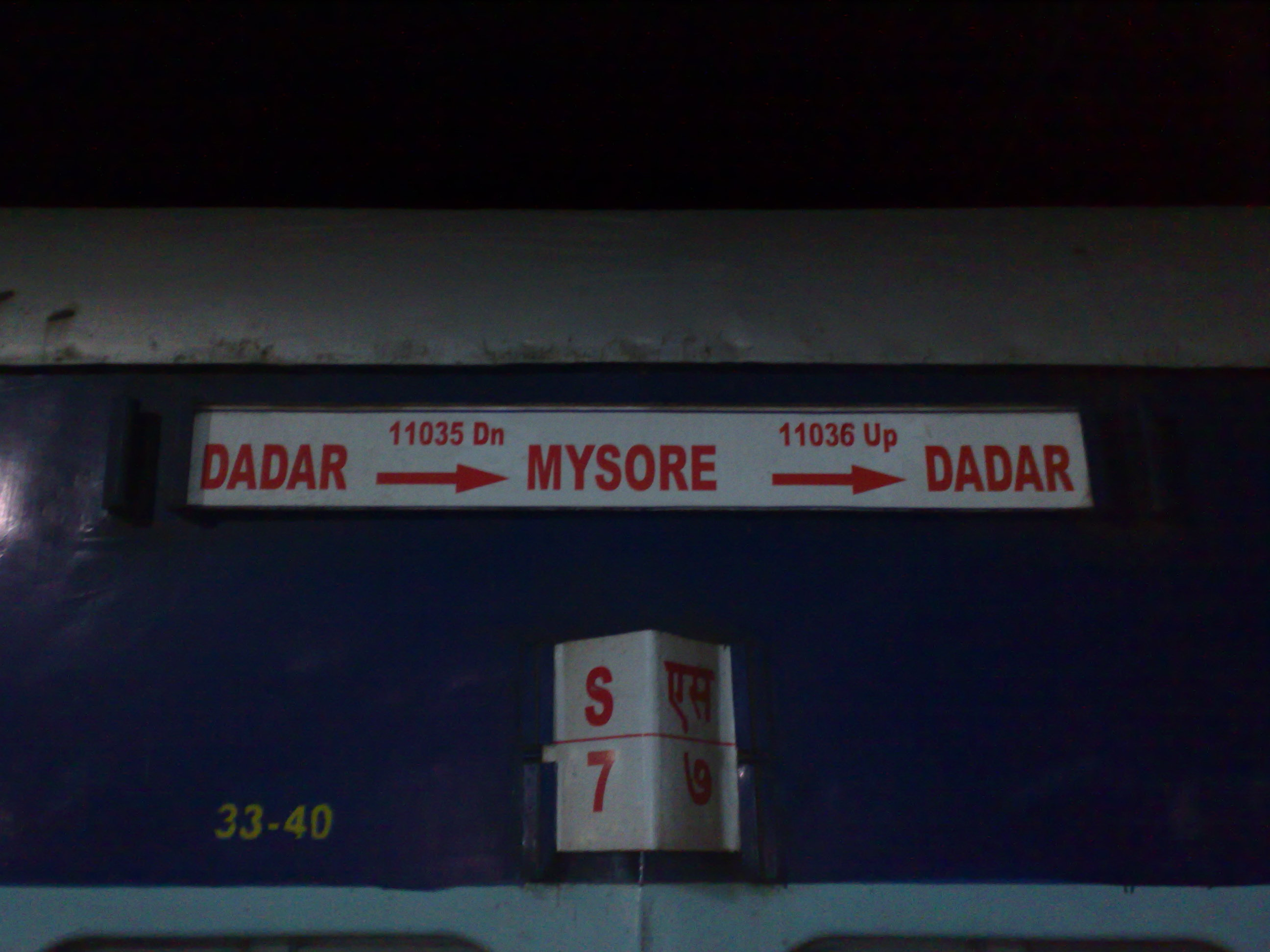 Sharavati Express coachboard